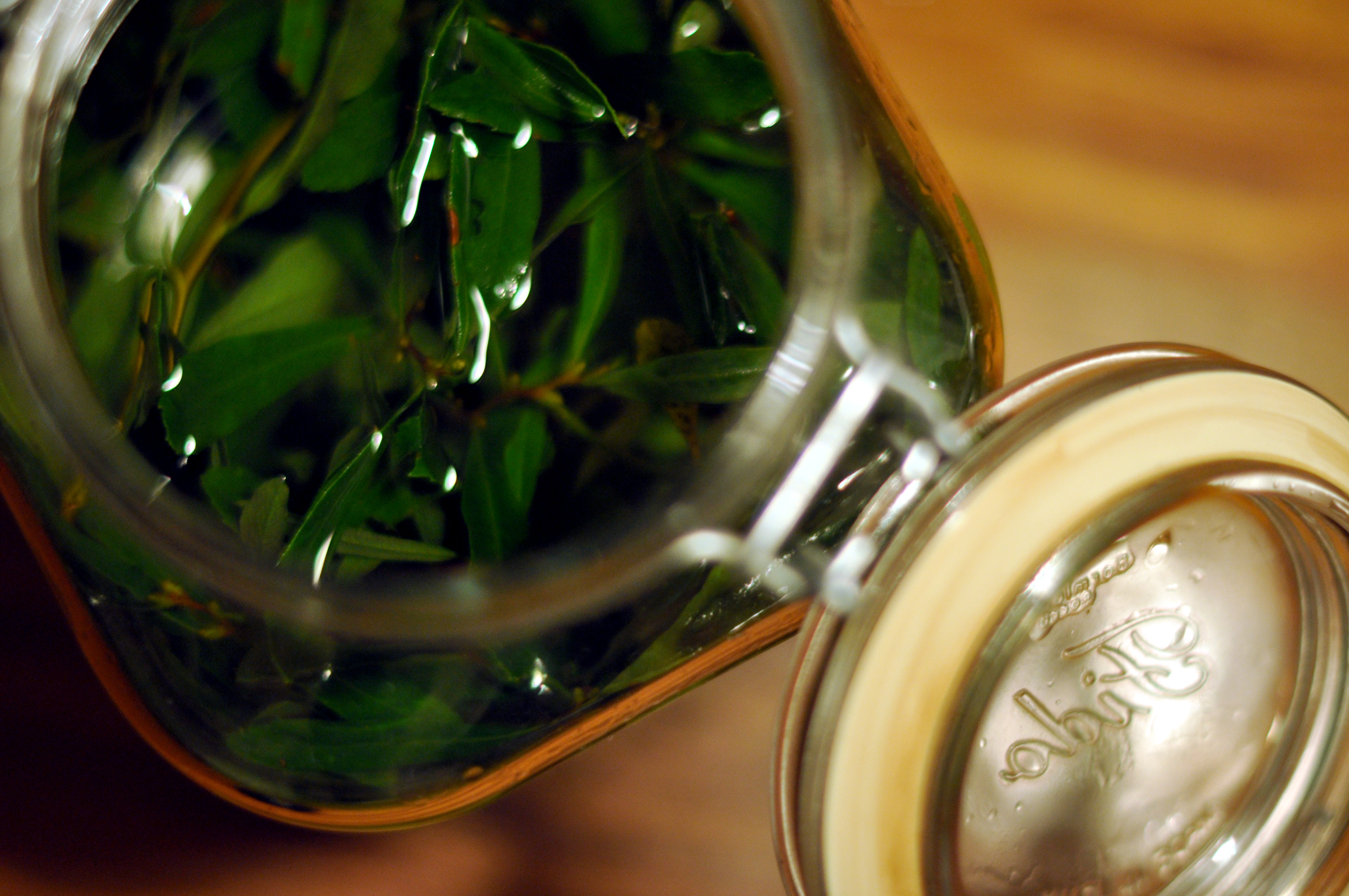 Porsesnaps (Bog myrtle schnapps)